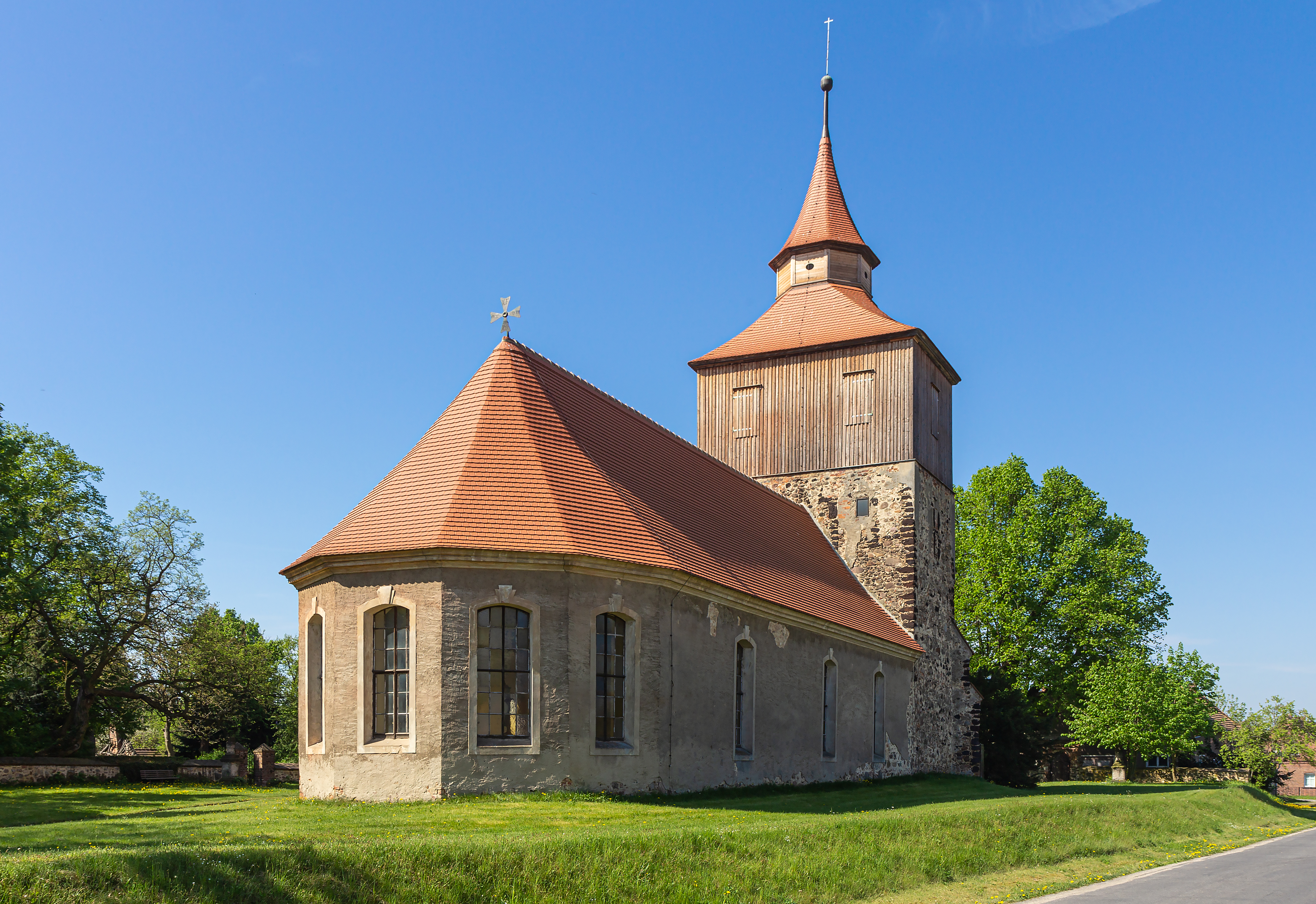 Church of Groß Jehser, Calau, Brandenburg, Deutschland